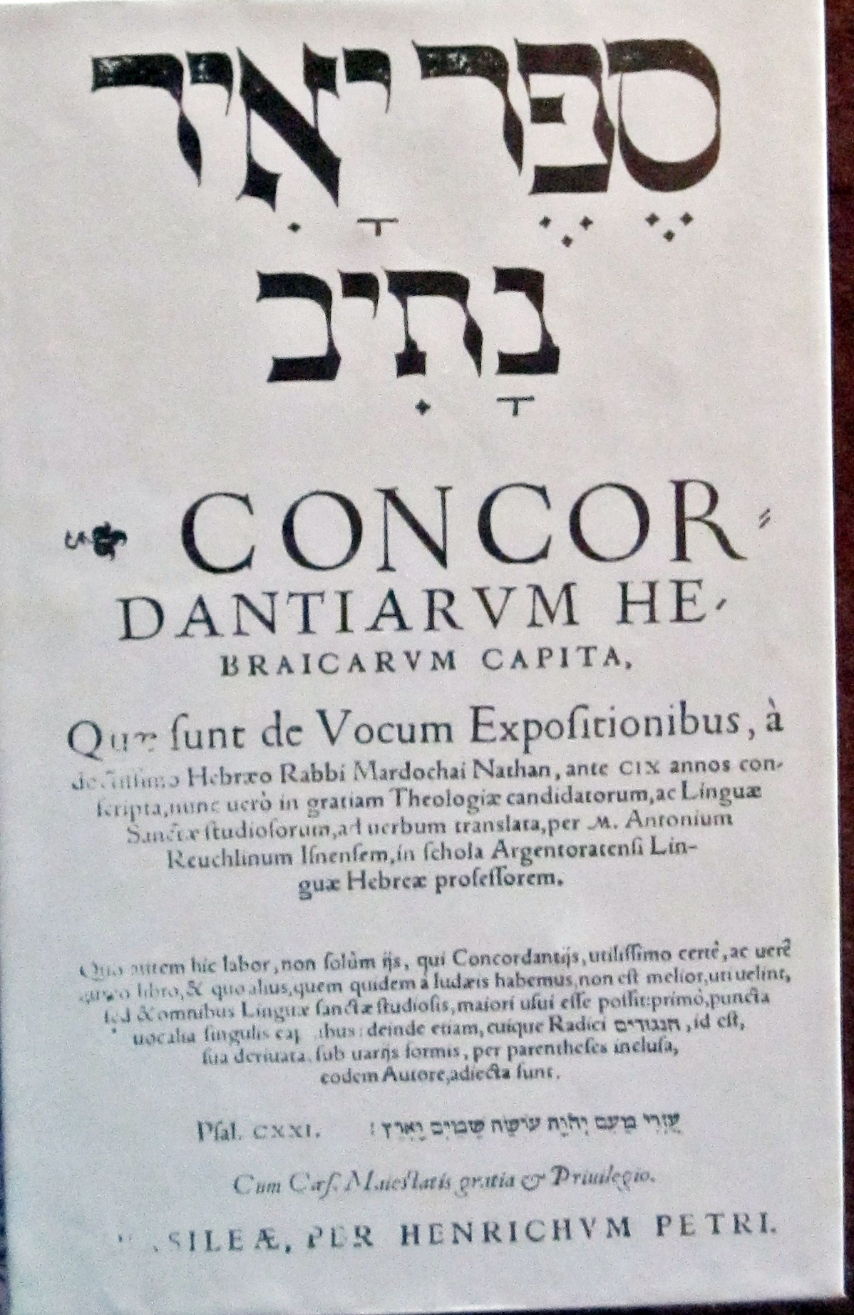 First Hebrew-Latin concordance of the Bible "Sefer Ya'ir Netive" by Mordecai Nathan, Basle, 1556